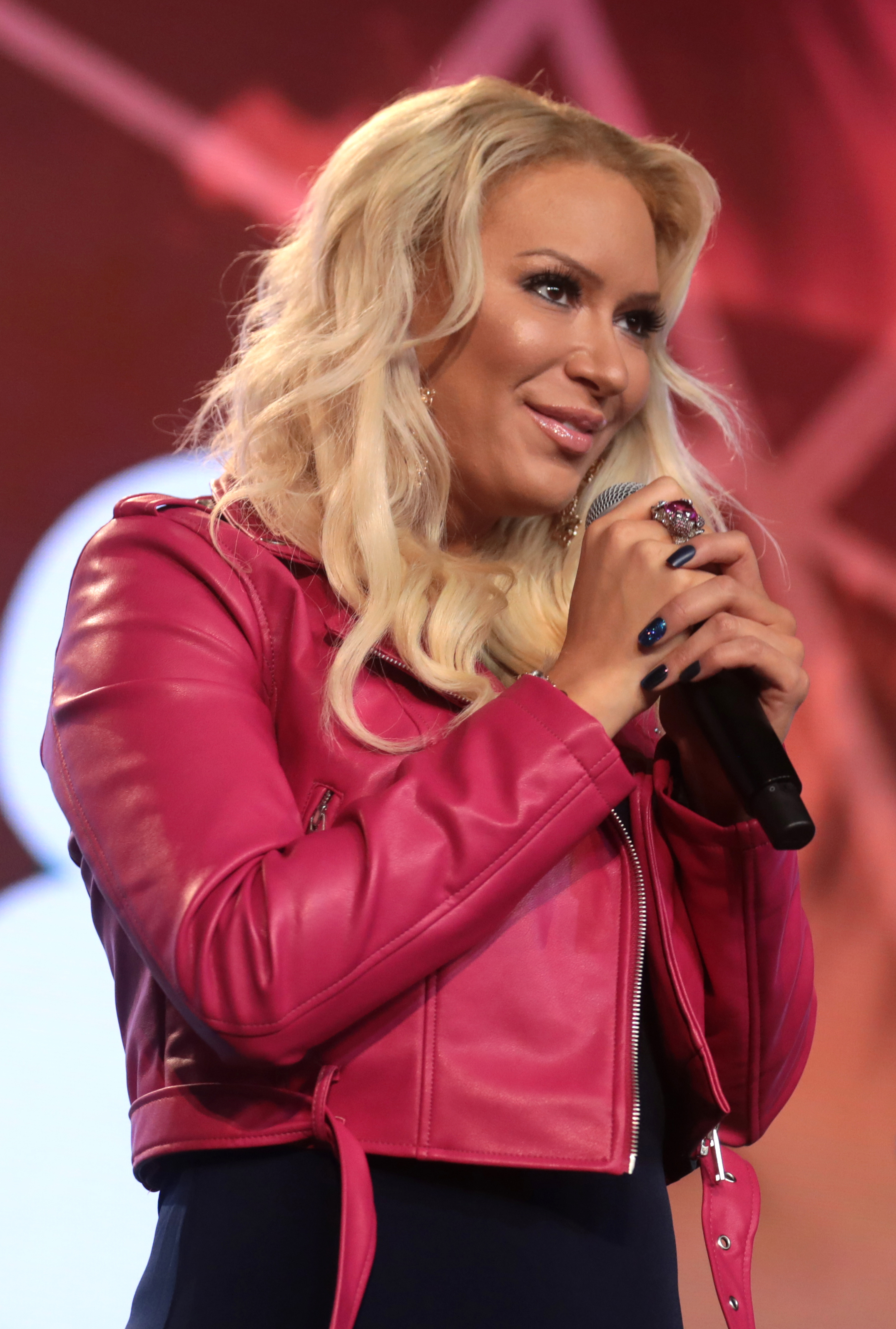 Kaya Jones speaking at an event in West Palm Beach, Florida.